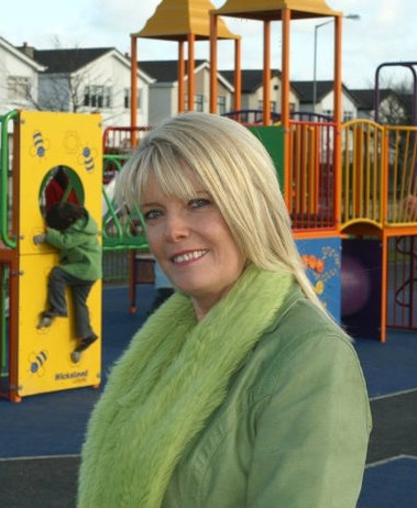 A photo of Cllr Mary Mitchell O'Connor at a playground in Cabinteely, Co. Dublin